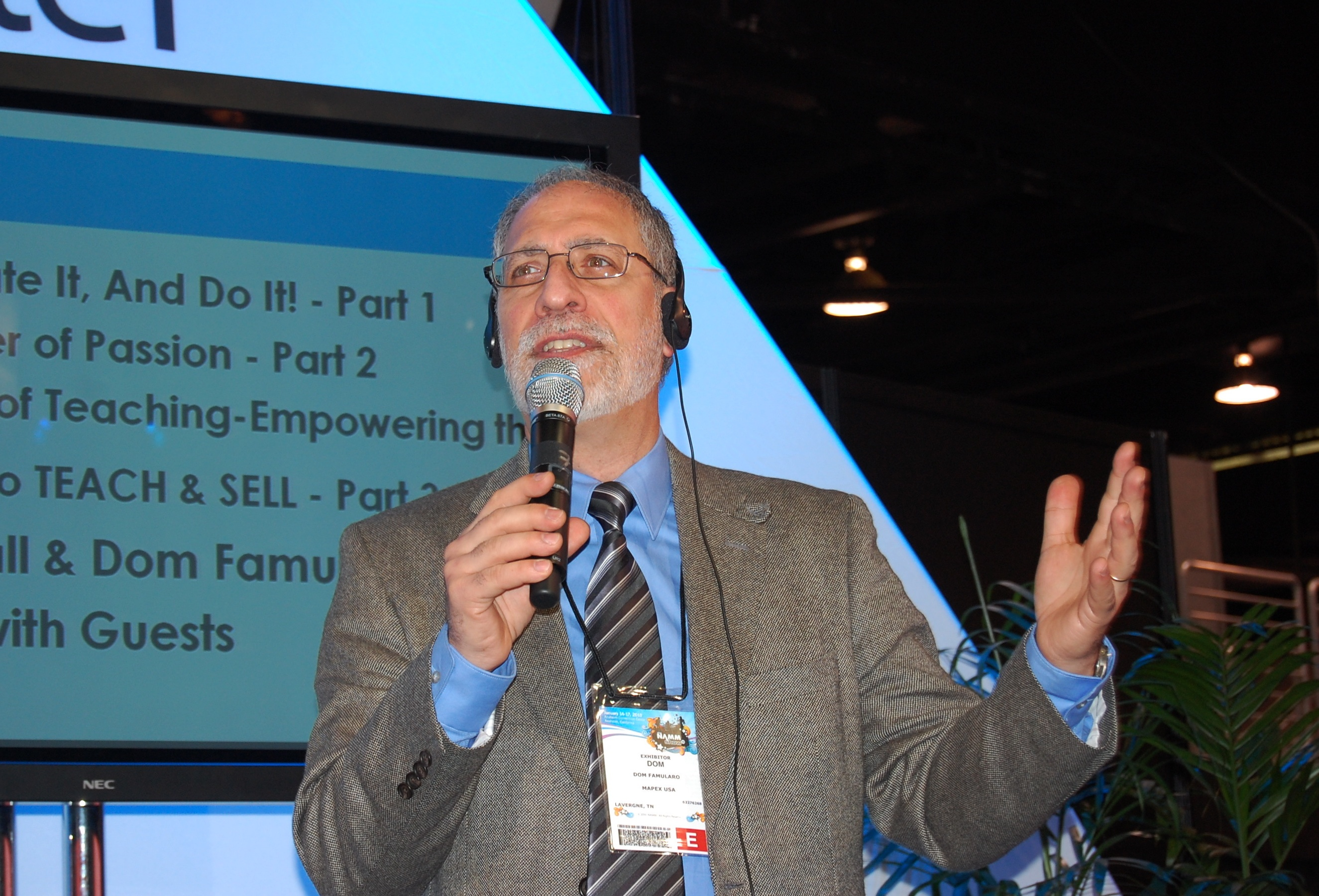 Dom Famularo, January 2010